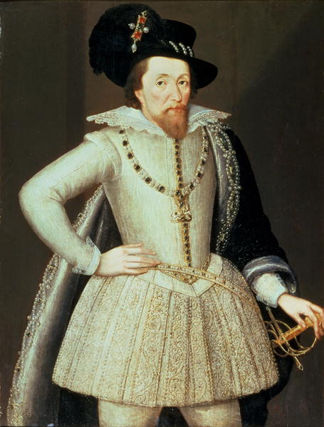 James VI of Scotland, I of England and Ireland